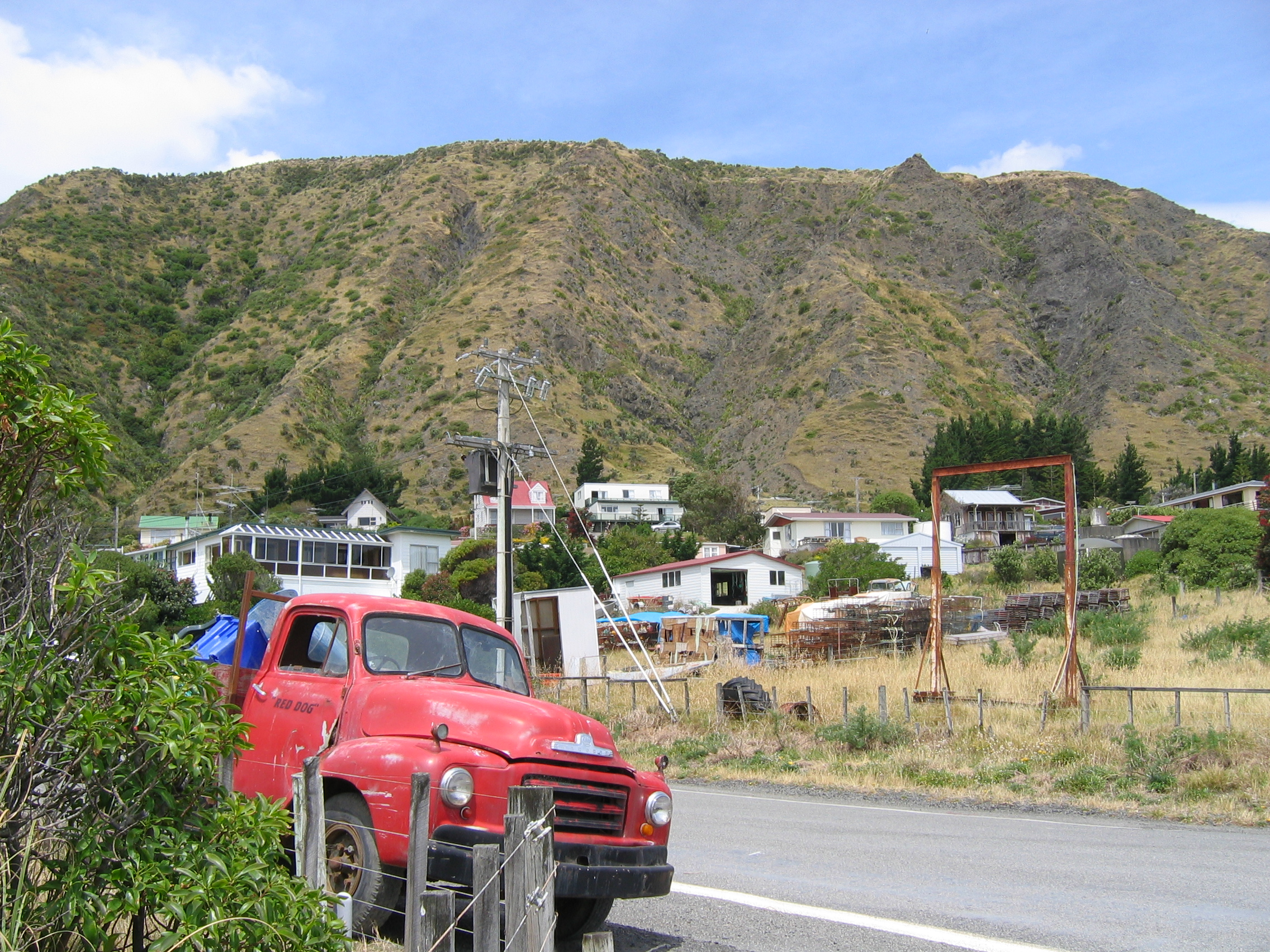 Ngawi Fishing Village. Photographed by David Blackwell